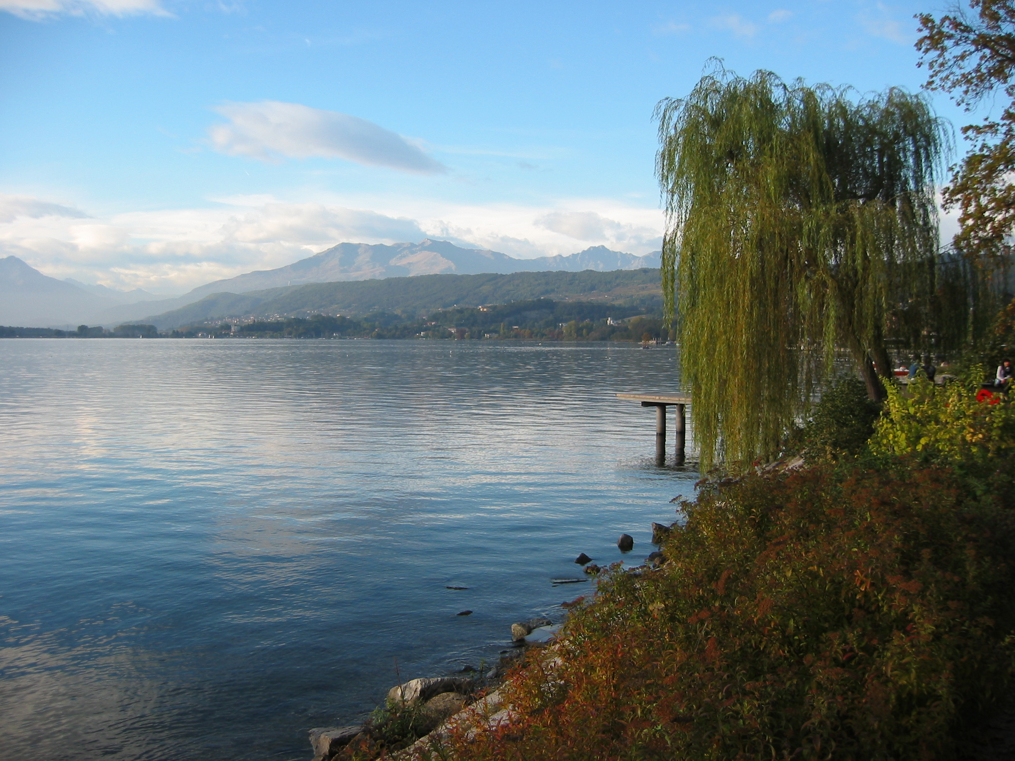 Paesaggio del lago di Viverone This is a photography of Natura 2000 protected area with ID IT1110020